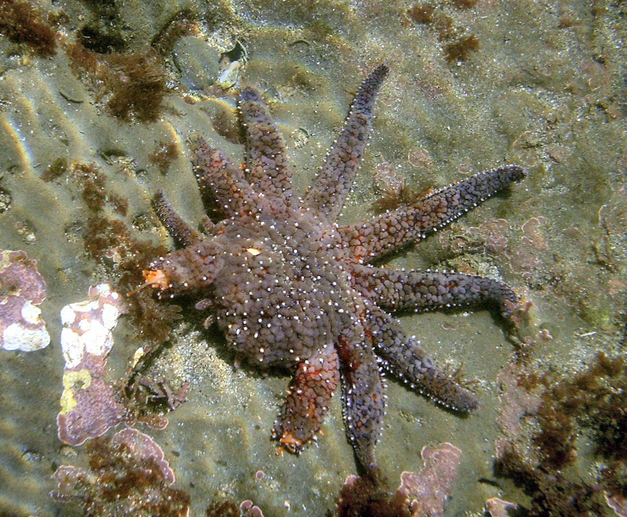 Sea star is growing new legs after old ones were lost in Northern California.